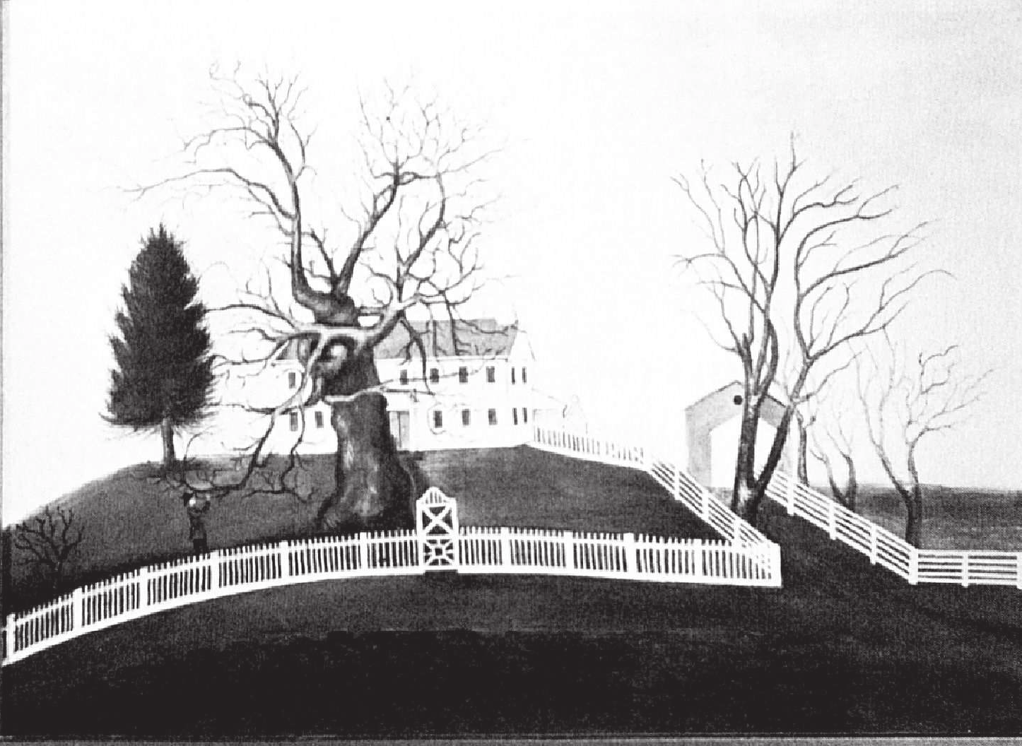 "The Wyllys Mansion and Charter Oak", painting by George Francis, 16 5/8 x 19 1/8 in. (cm. 42.2 x 48.6), Oil. (cf. SIRIS entry. Probably commissioned by the local arts patron Daniel Wadsworth, this painting depicts the colonial mansion of the Wyllys Family (torn down around 1830) and the famous Charter Oak in Hartford, Connecticut. Note the gentelman tugging at a twig (a relic hunter). There is another painting by Francis of the Charter Oak, also dated 1818, lacking the mansion but including the little gentleman.